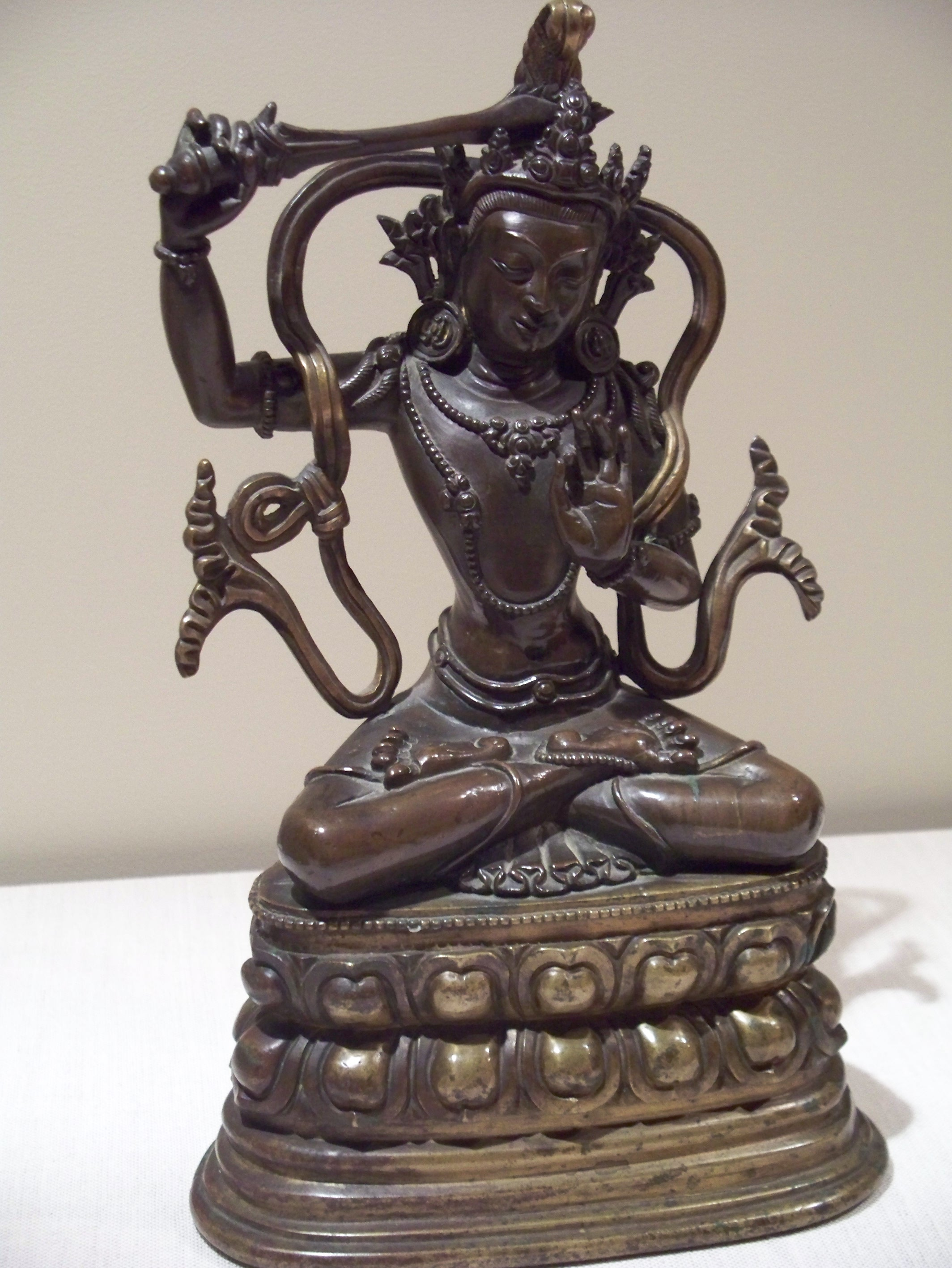 Manjusri Creation date 1700s Materials bronze Dimensions H: 11 1/4 in. Credit line Gift of Mr. and Mrs. Norris Gary Chumley Accession number 1986.249 Wikipedia Loves Art at the Indianapolis Museum of Art This photo of item # 1986.249 at the Indianapolis Museum of Art was contributed under the team name "Opal_Art_Seekers_4" as part of the Wikipedia Loves Art project in February 2009. Indianapolis Museum of Art The original photograph on Flickr was taken by Forever Wiser—please add a comment to the original Flickr page whenever a use has been made on Wikipedia or another project. Project galleries on Flickr: this institution, this team